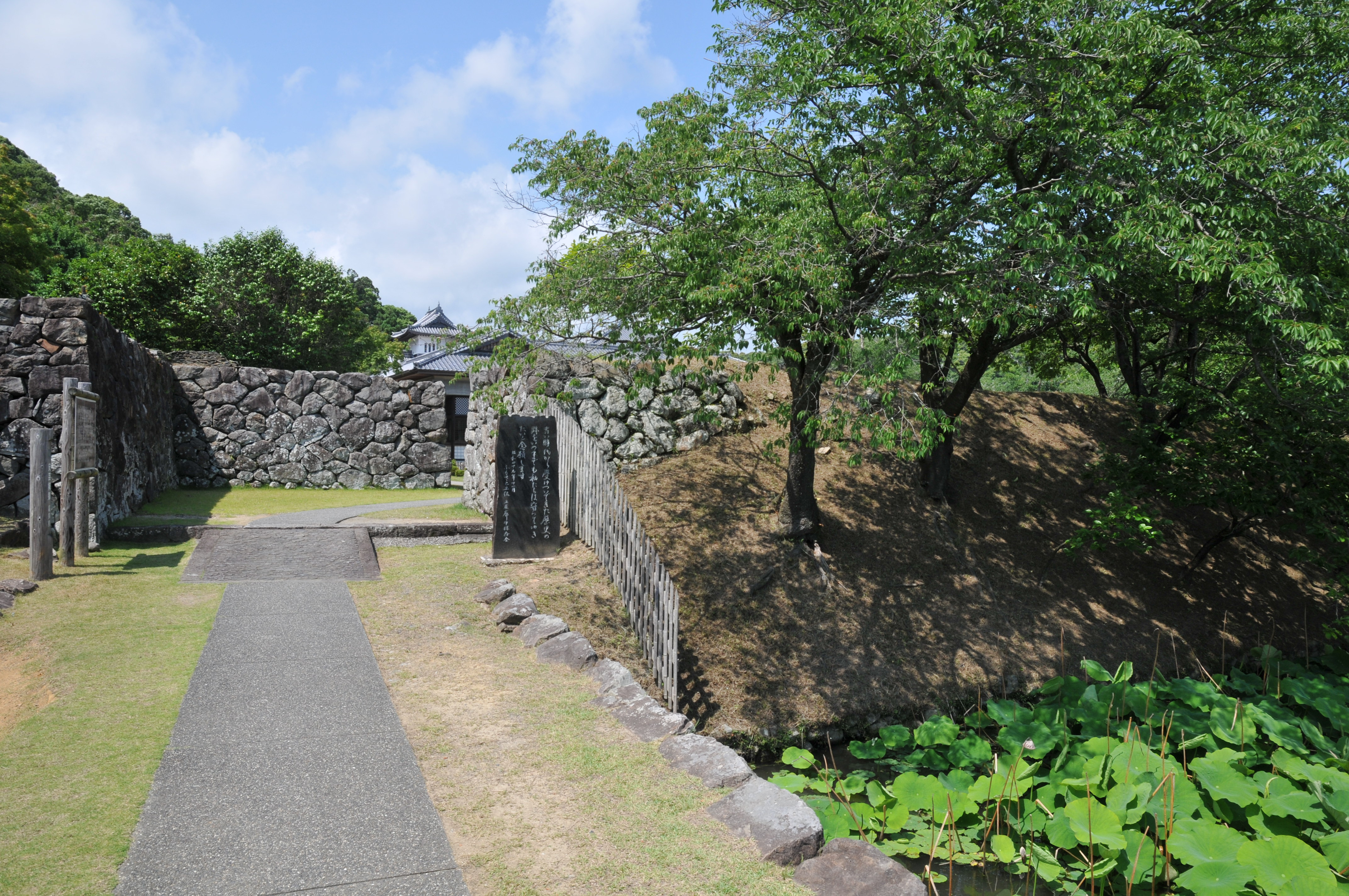 Aki-jō south enterance